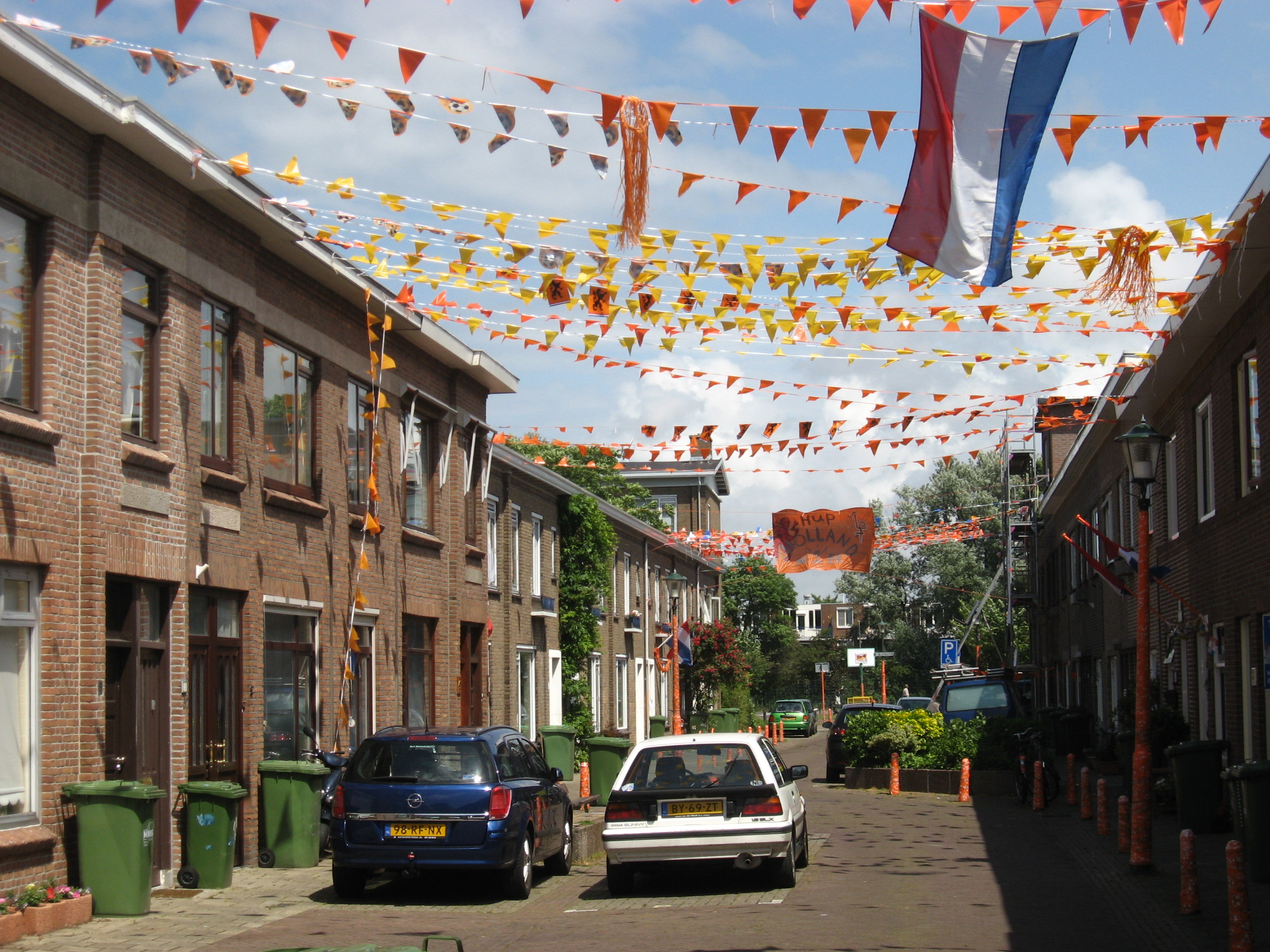 Footbal fever in (Houtwijk) The Hague